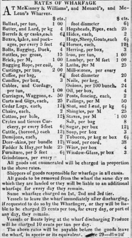 The Texas Times (Galveston, Texas) publishes wharfage rates, Feb 18, 1843